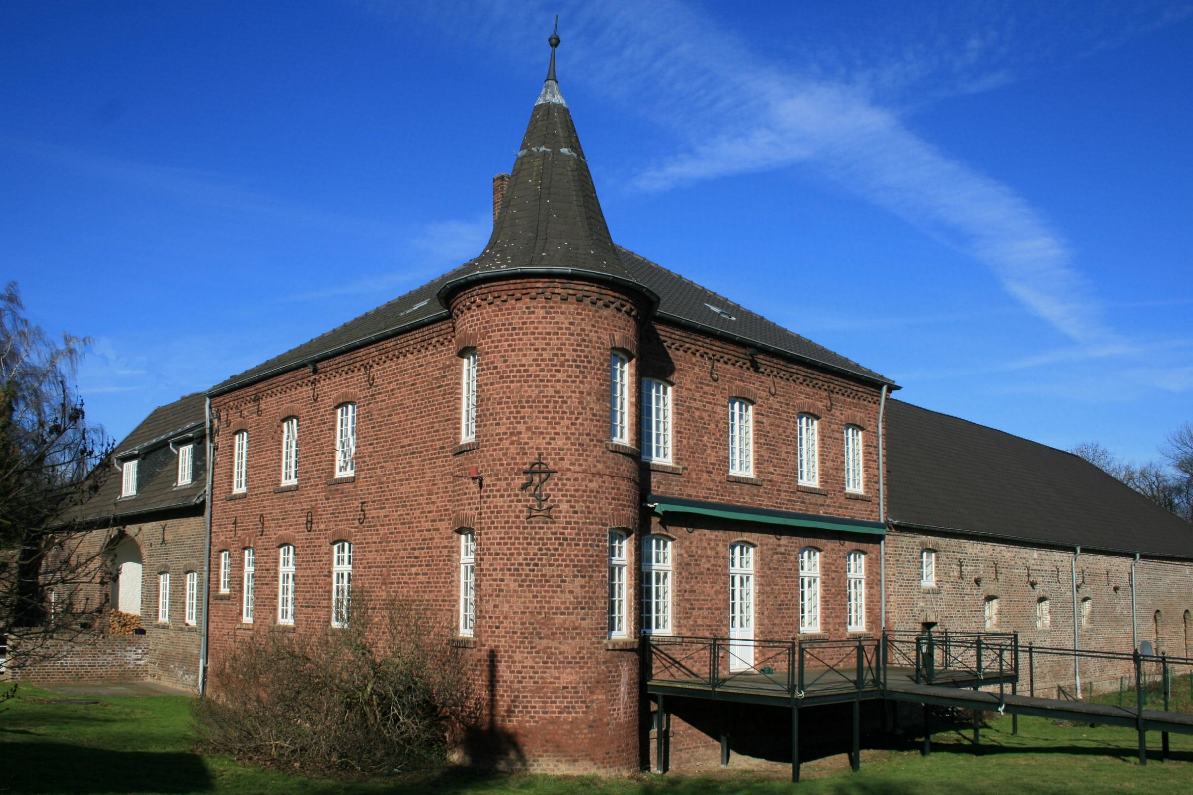 Cultural heritage monument No. 67 in Jülich